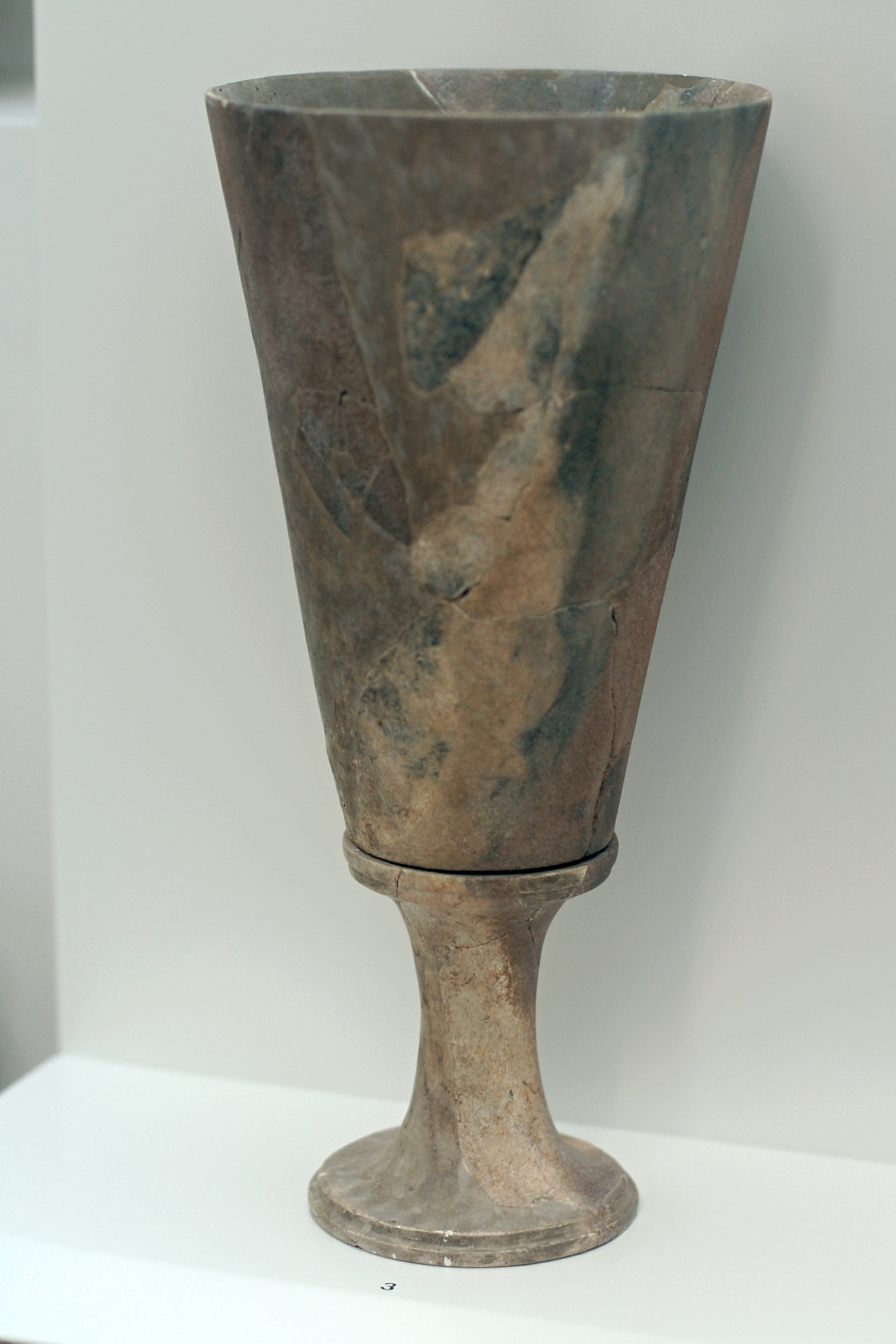 Cup, tall, stone, probably for ritual. Minoan villa in Makrygialos, Late Minoan I B period, or 1780-1425 BC. Archaeological Museum of Agios Nikolaos.